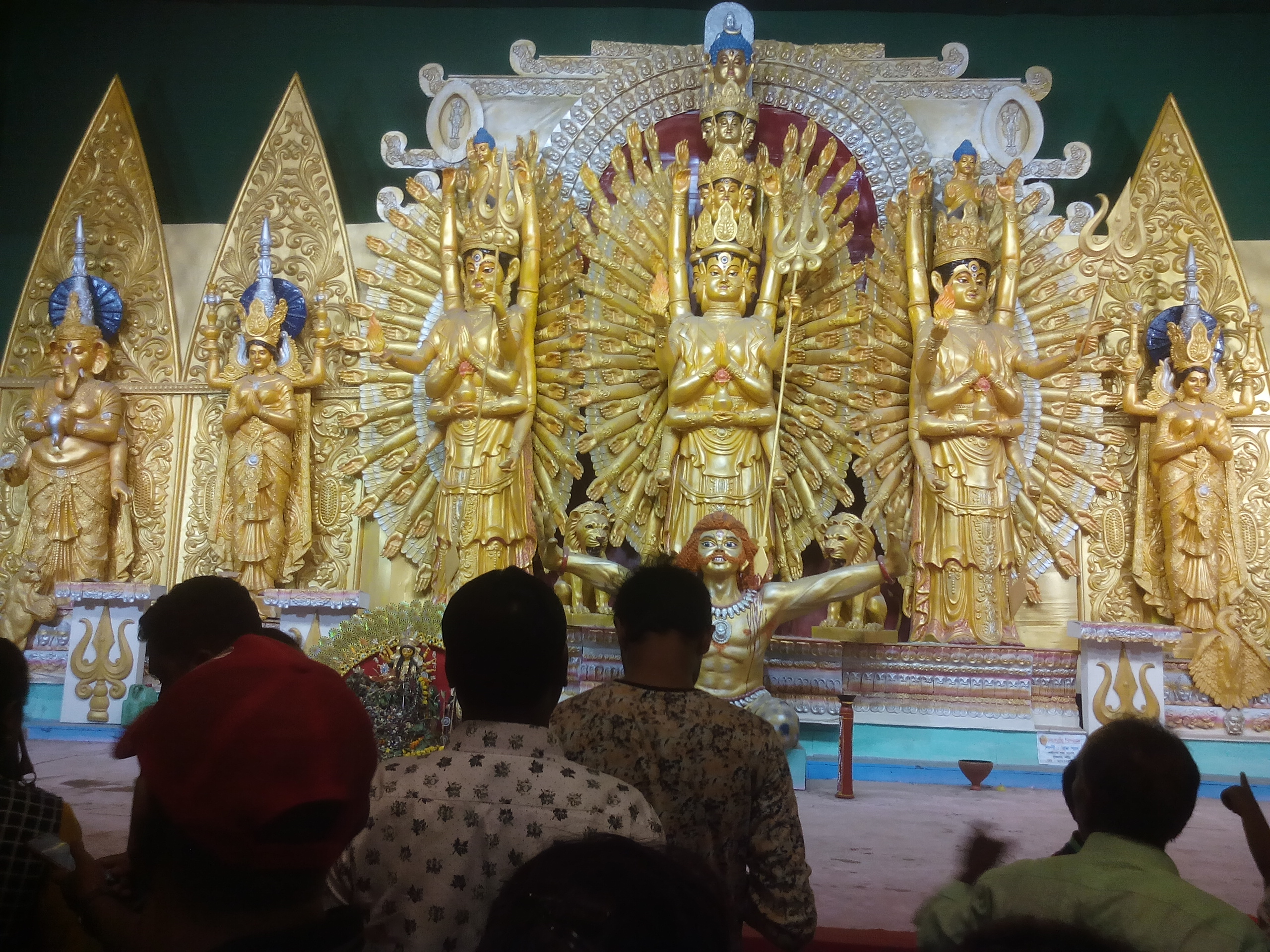 Idol of Durga at Bandhudal Sporting Club in Baranagar